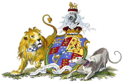 Source: Catton's English Peerage, 1790